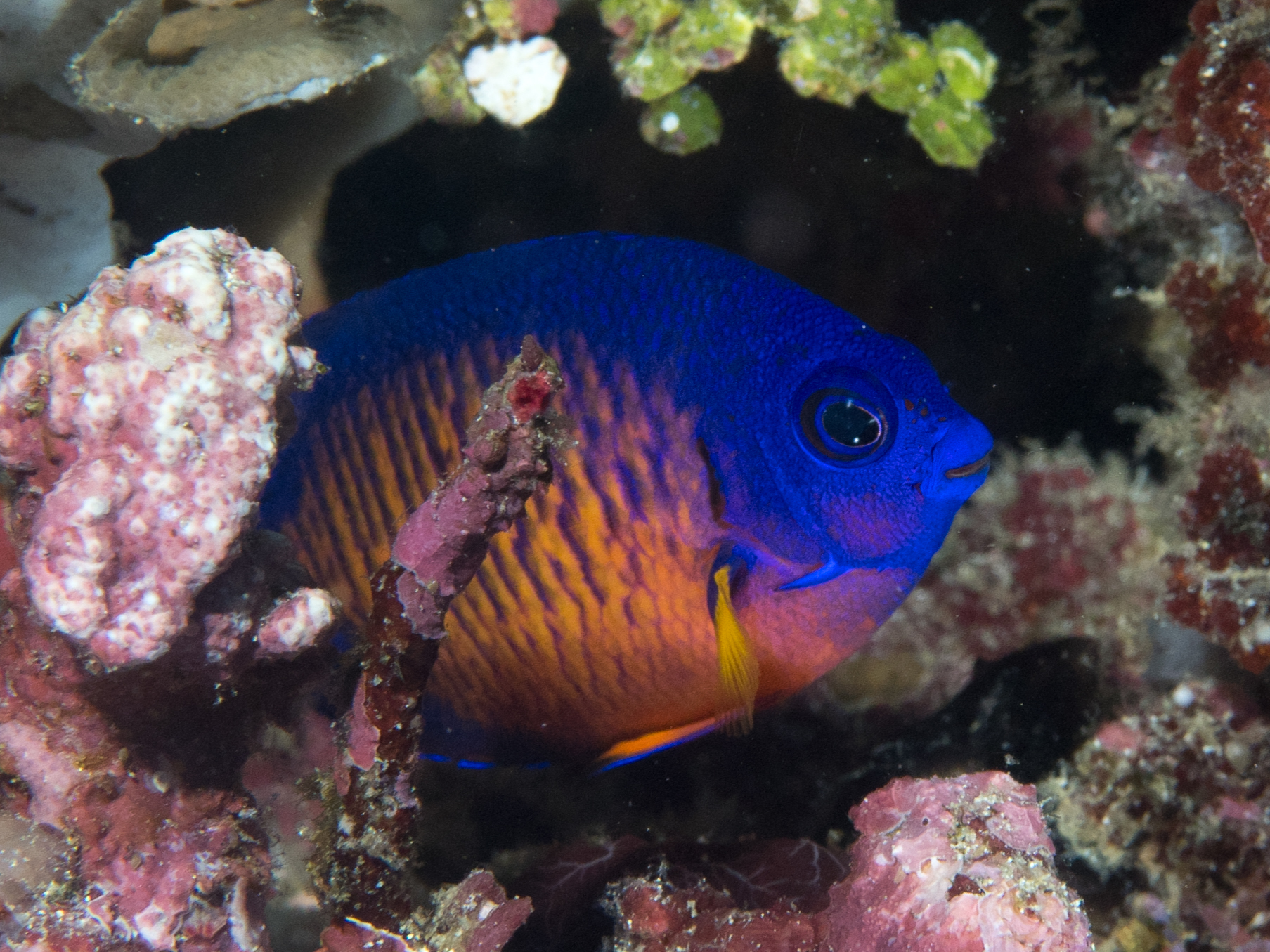 Two-spined angelfish (Centropyge bispinosa), Rao west of Morotai in Indonesia